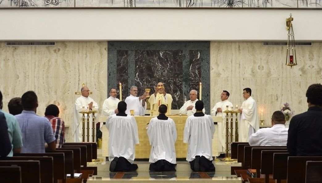 Sunday Eucharist